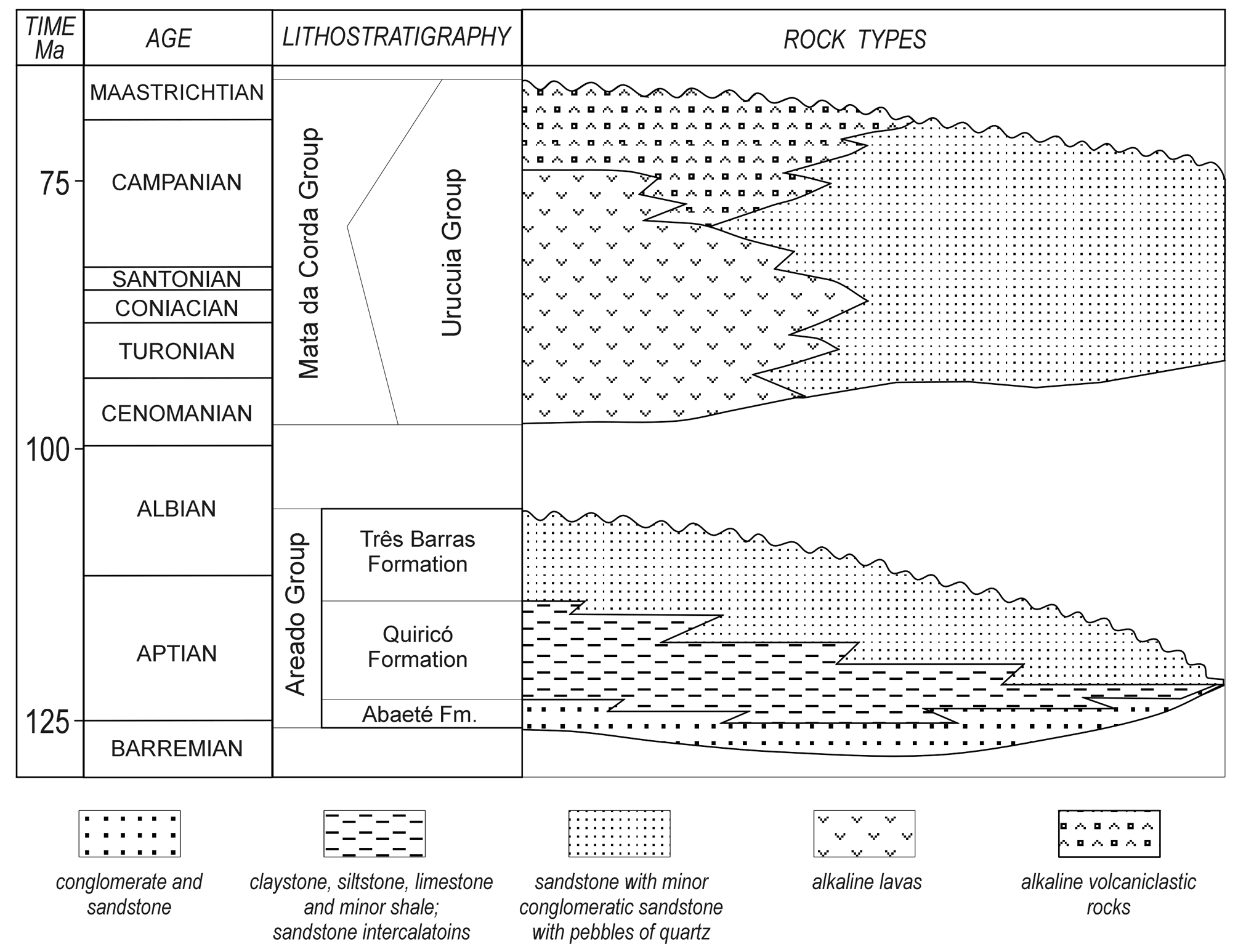 Original caption: "Stratigraphy of the Sanfranciscana basin."